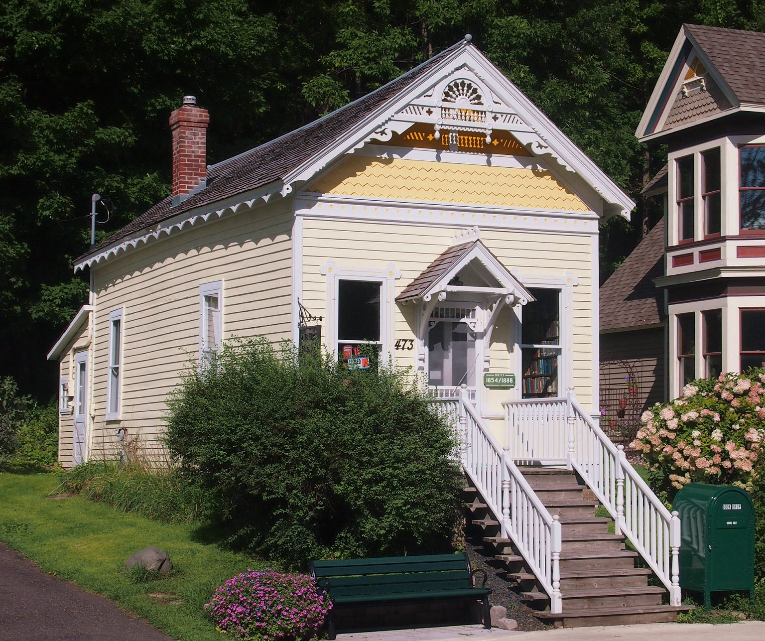 Taylors Falls Public Library, 473 Bench Street, Taylors Falls, Minnesota, USA. Viewed from the east-southeast.